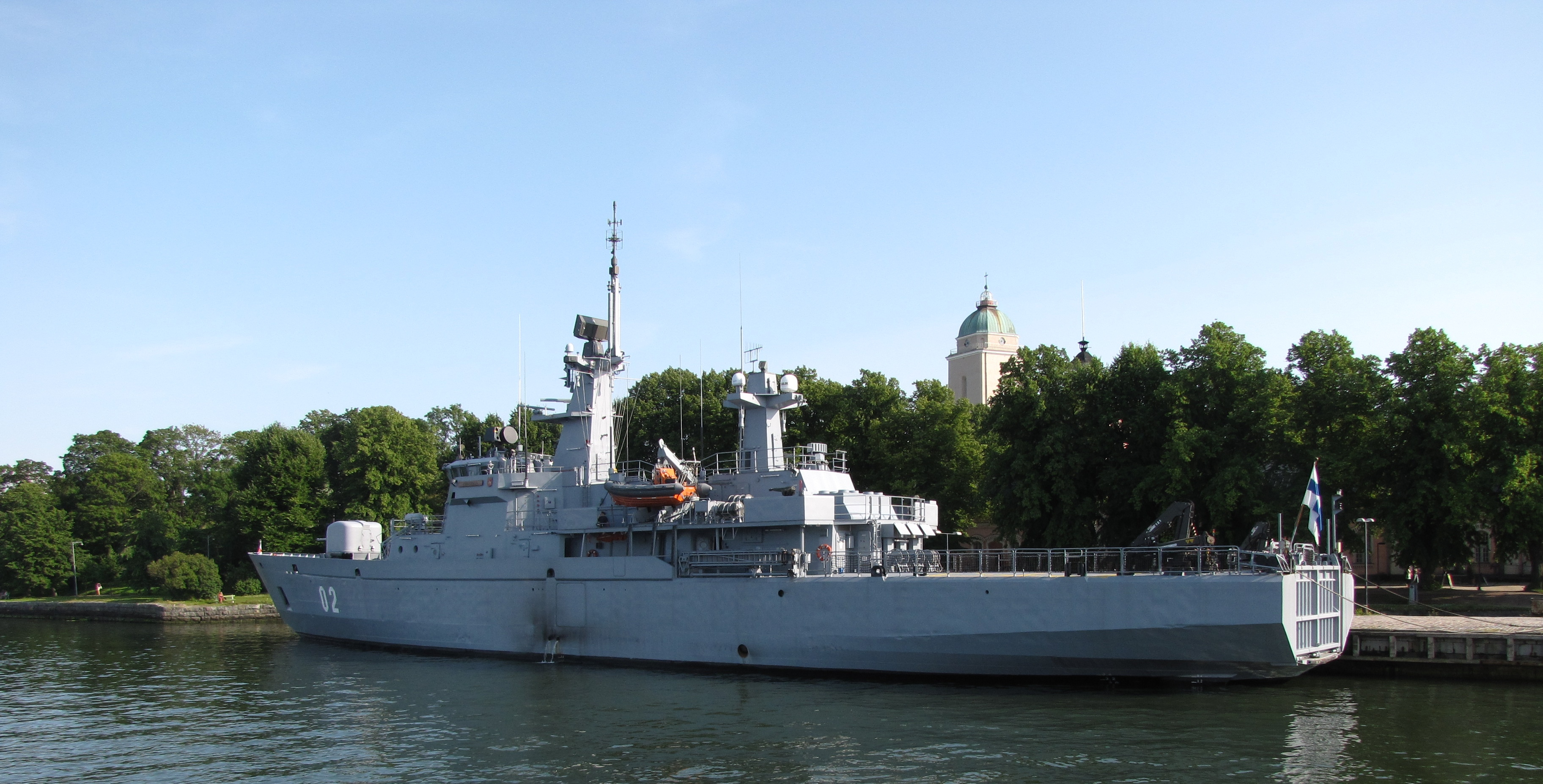 Finnish minelayer Hämeenmaa (02) in Suomenlinna pier.